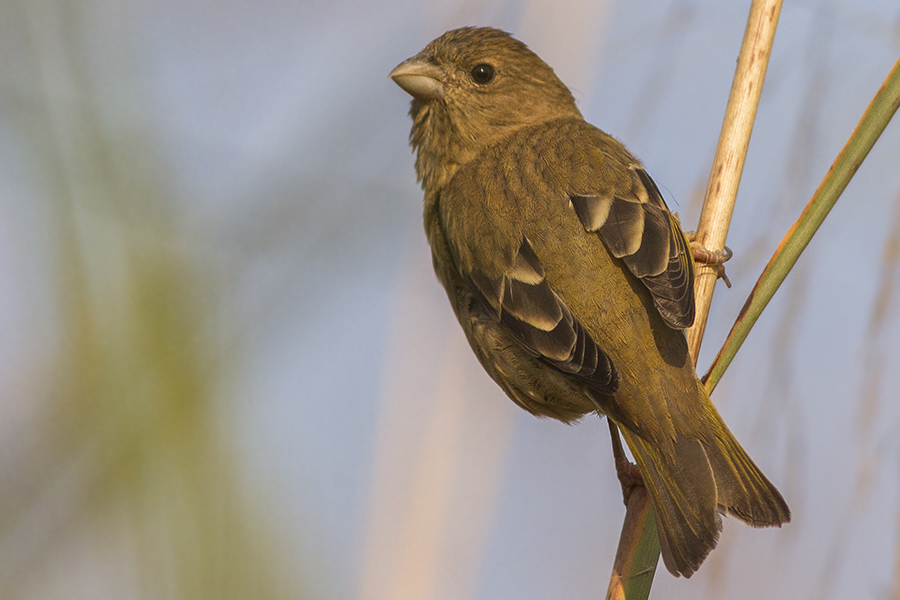 The specie Common Rosefinch had been photographed during the bird photography tour of GoingWild from Baur reservoir, Uttarakhand, India on 03.12.2014.